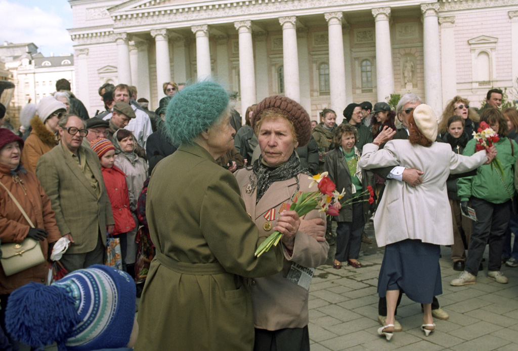 “War veterans' reunion on Theater Square”. War veterans' reunion on Theater Square near the Bolshoi Theater. Celebrating the 54th Anniversary of Victory in the Great Patriotic War.